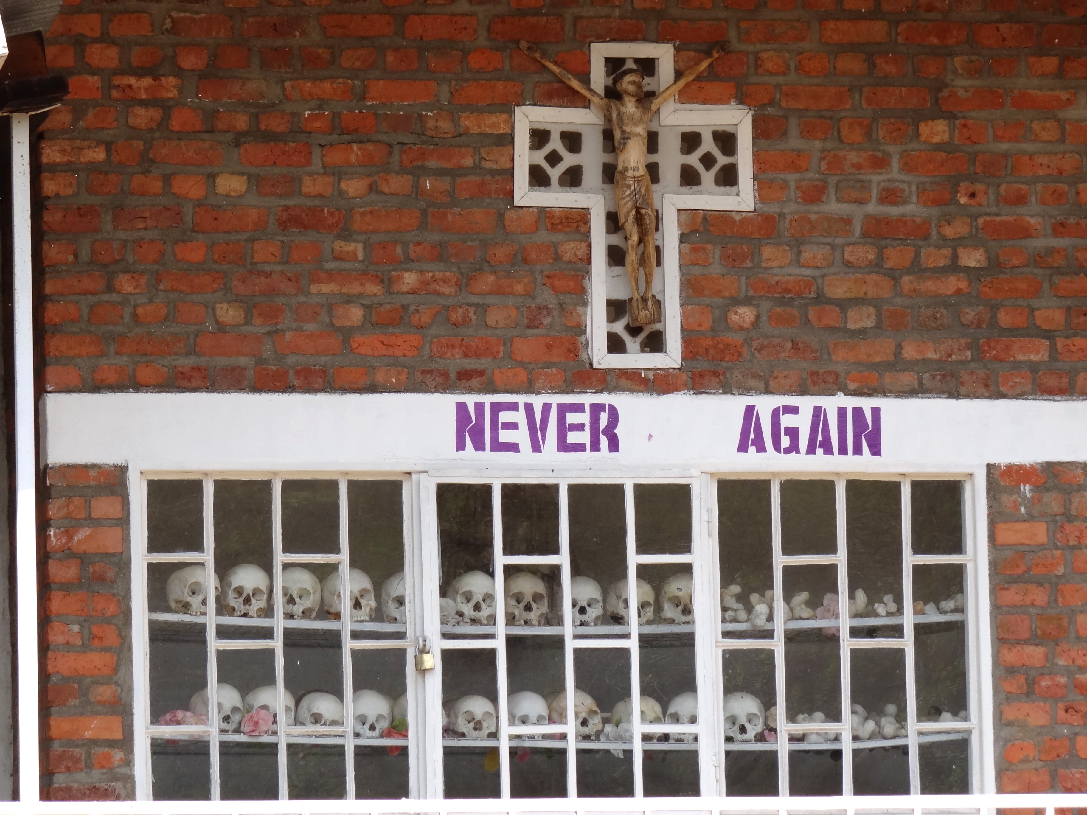 Never Again - With Display of Skulls of Victims - Courtyard of Genocide Memorial Church - Karongi-Kibuye - Western Rwanda - 01